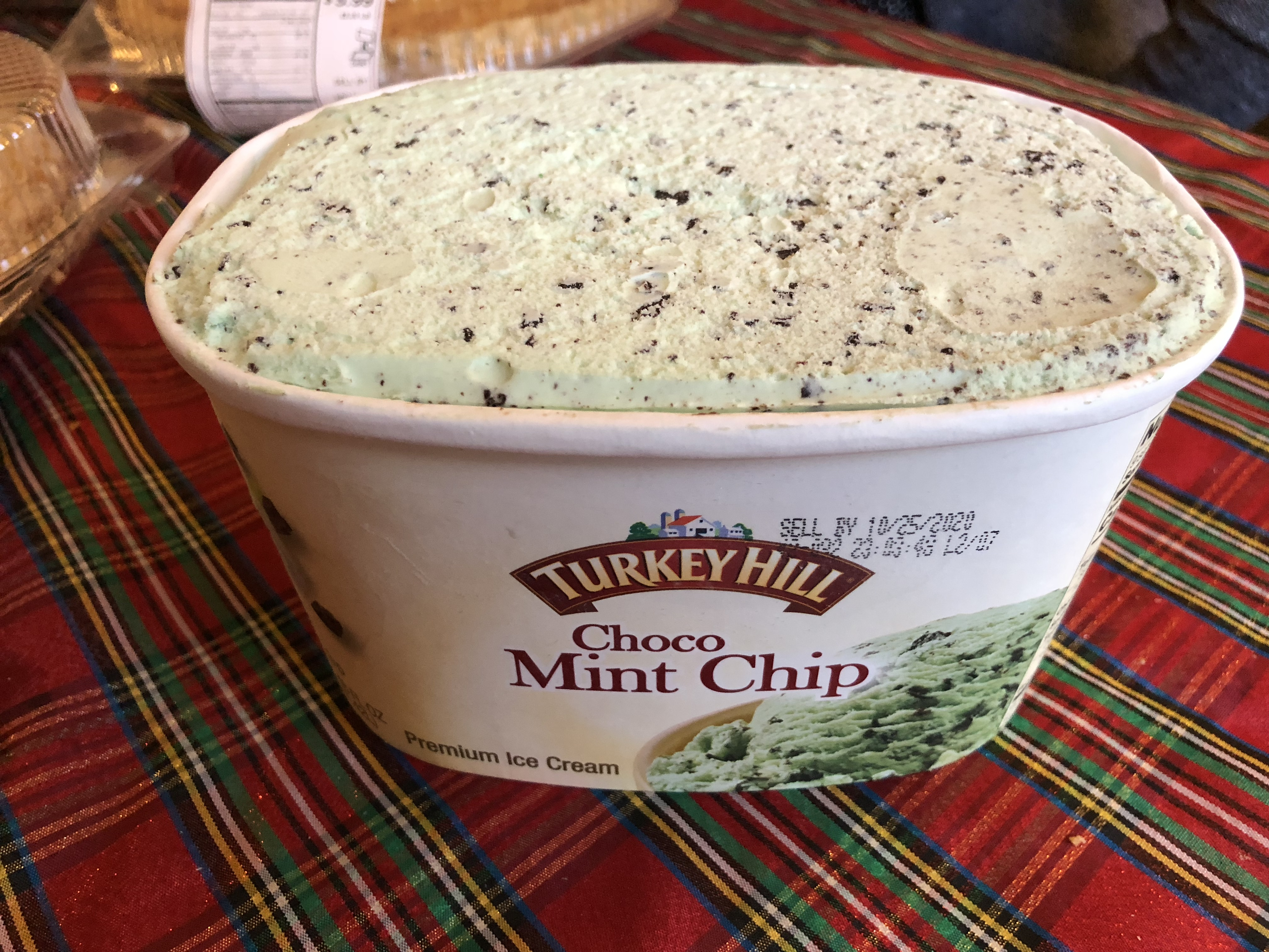 A tub of Turkey Hill Choco Mint Chip Premium Ice Cream in the Parkway Village section of Ewing Township, Mercer County, New Jersey